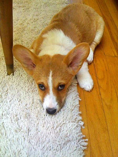 Pembroke Welsh Corgi puppy